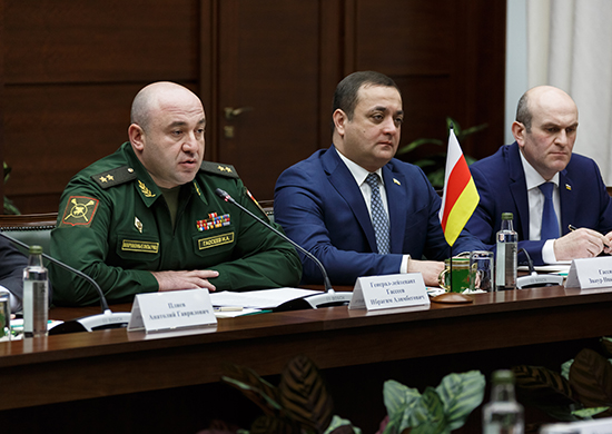 Meeting of Ministers of Defense of Russia and South Ossetia (2017-03-31)